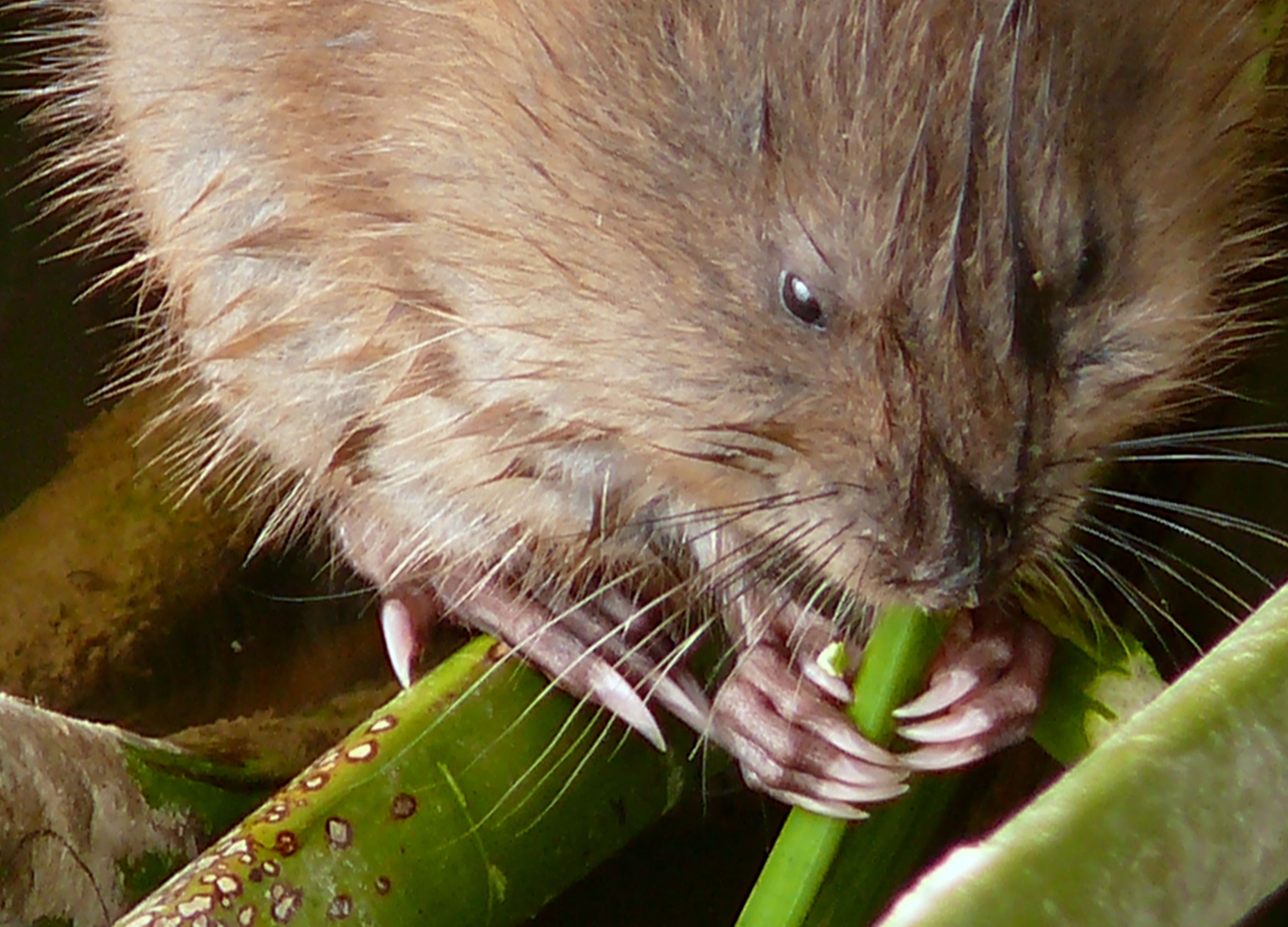 Muskrat (Ondatra zibethicus) eating a plant. San Luis Obispo County, California, USA.